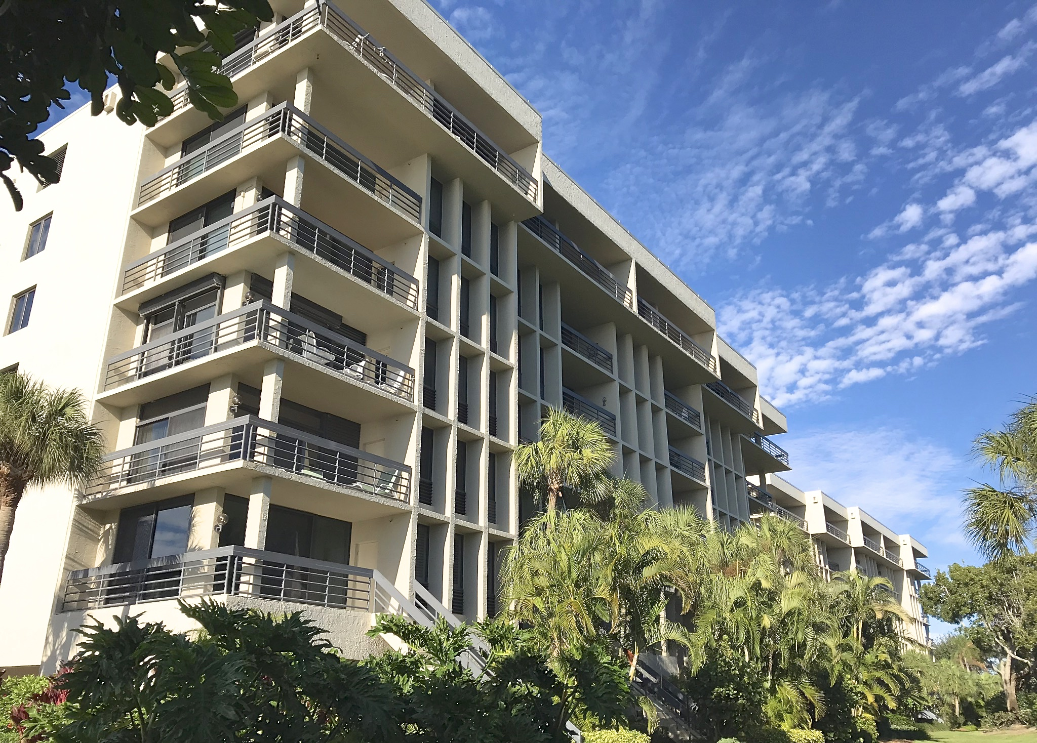 Beachplace 3 (Tim Seibert, Architect, FAIA)